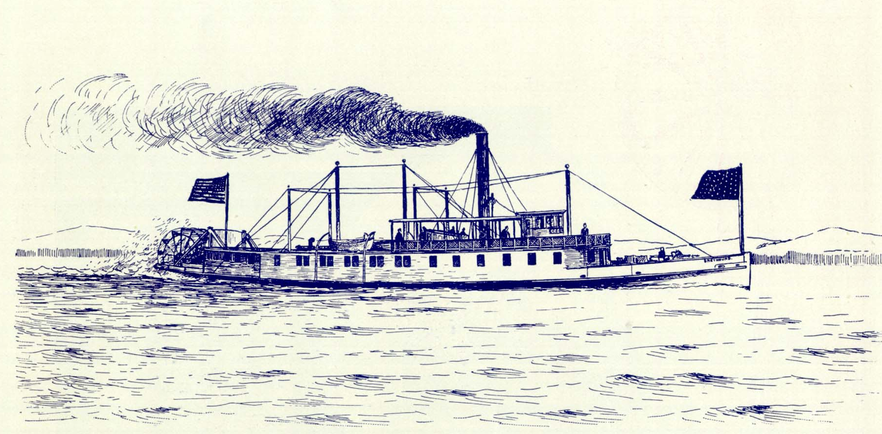 profile drawing of steamboat Greyhound by Samuel Ward Stanton